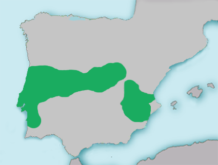 Distribution map of Chondrostoma polylepis in Iberian Peninsula.